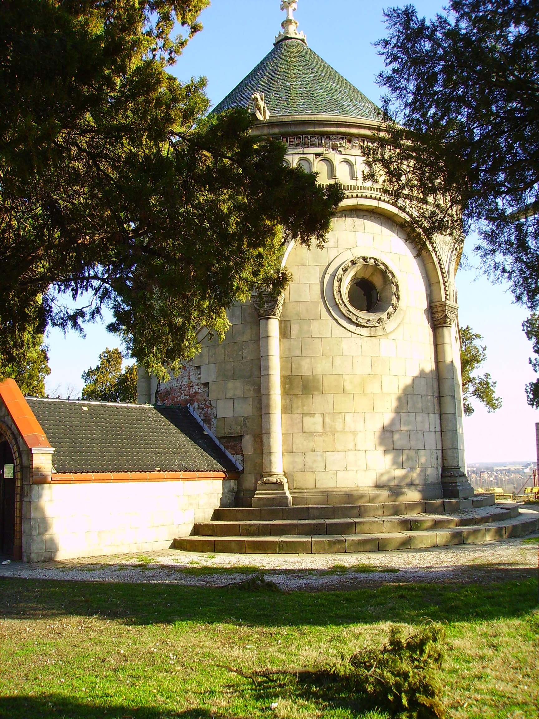 Zsolnay mausoleum